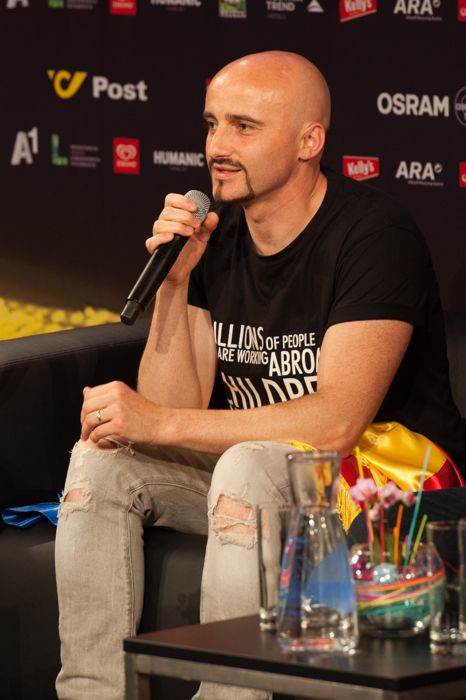 Eurovision Song Contest Vienna 2015: Voltaj